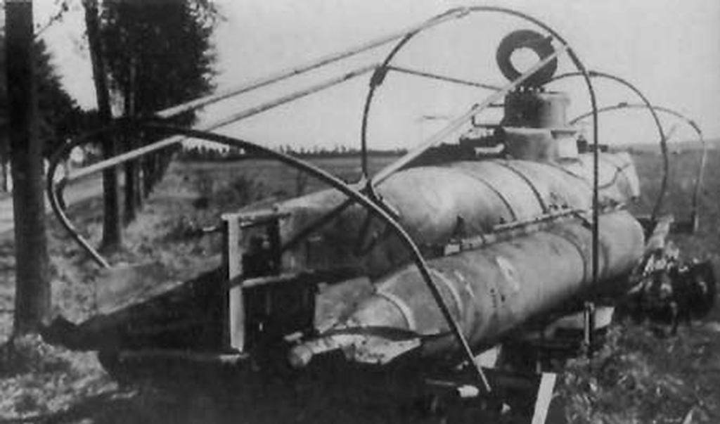 A damaged and abandoned Biber on its transportation trailer